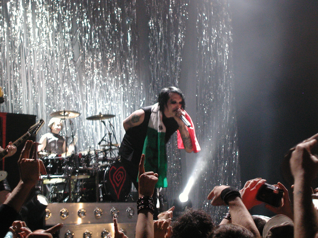 Marilyn Manson, live in Florence 29/05/2007